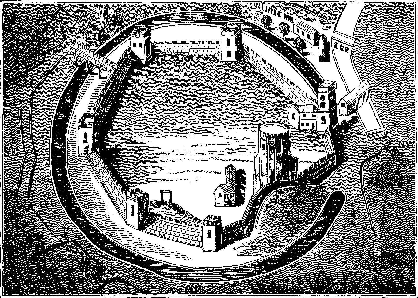 Ancient plan of Oxford Castle. The Mirror of Literature, Amusement, and Instruction, Vol. 12, No. 328, August 23, 1828.